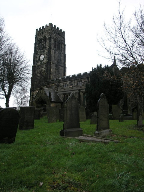 Church North Wingfield in Derbyshire. St Lawrence's Church in North Wingfield appears to be stained with what I assume is pollution from the now gone iron works which were located on the opposite side of the valley.